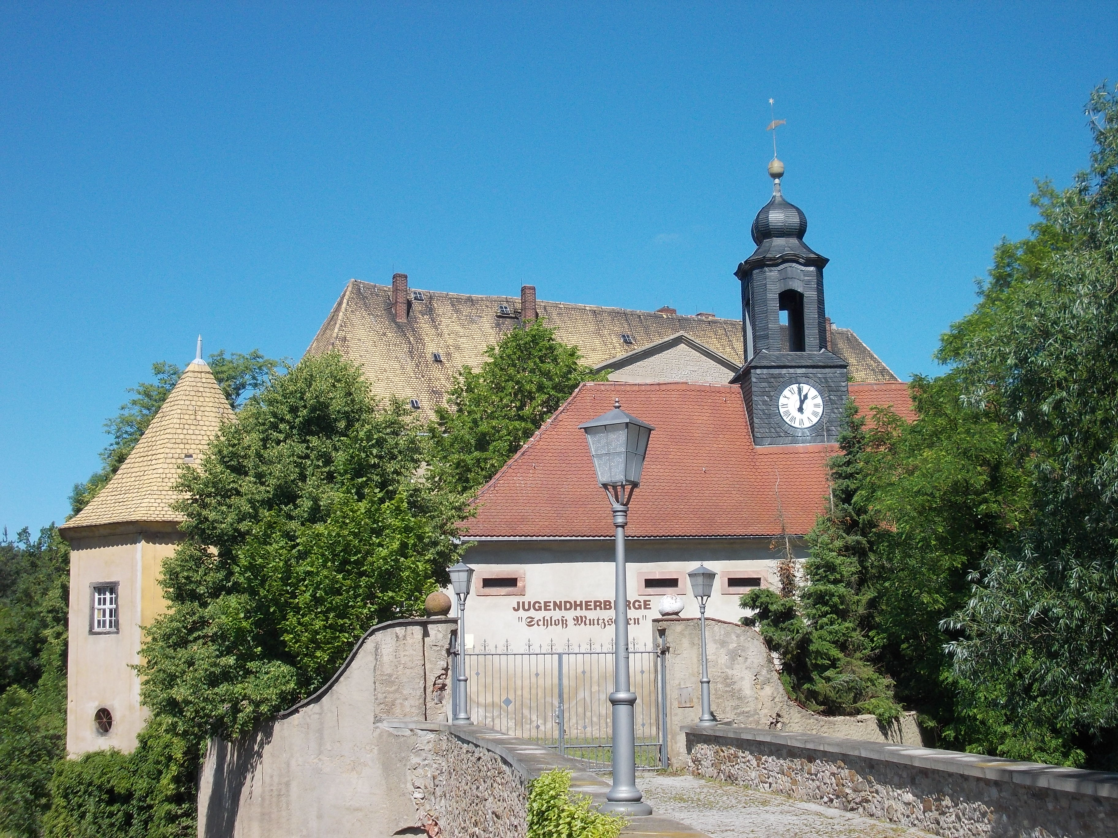 Mutzschen castle (Grimma, Leipzig district, Saxony)